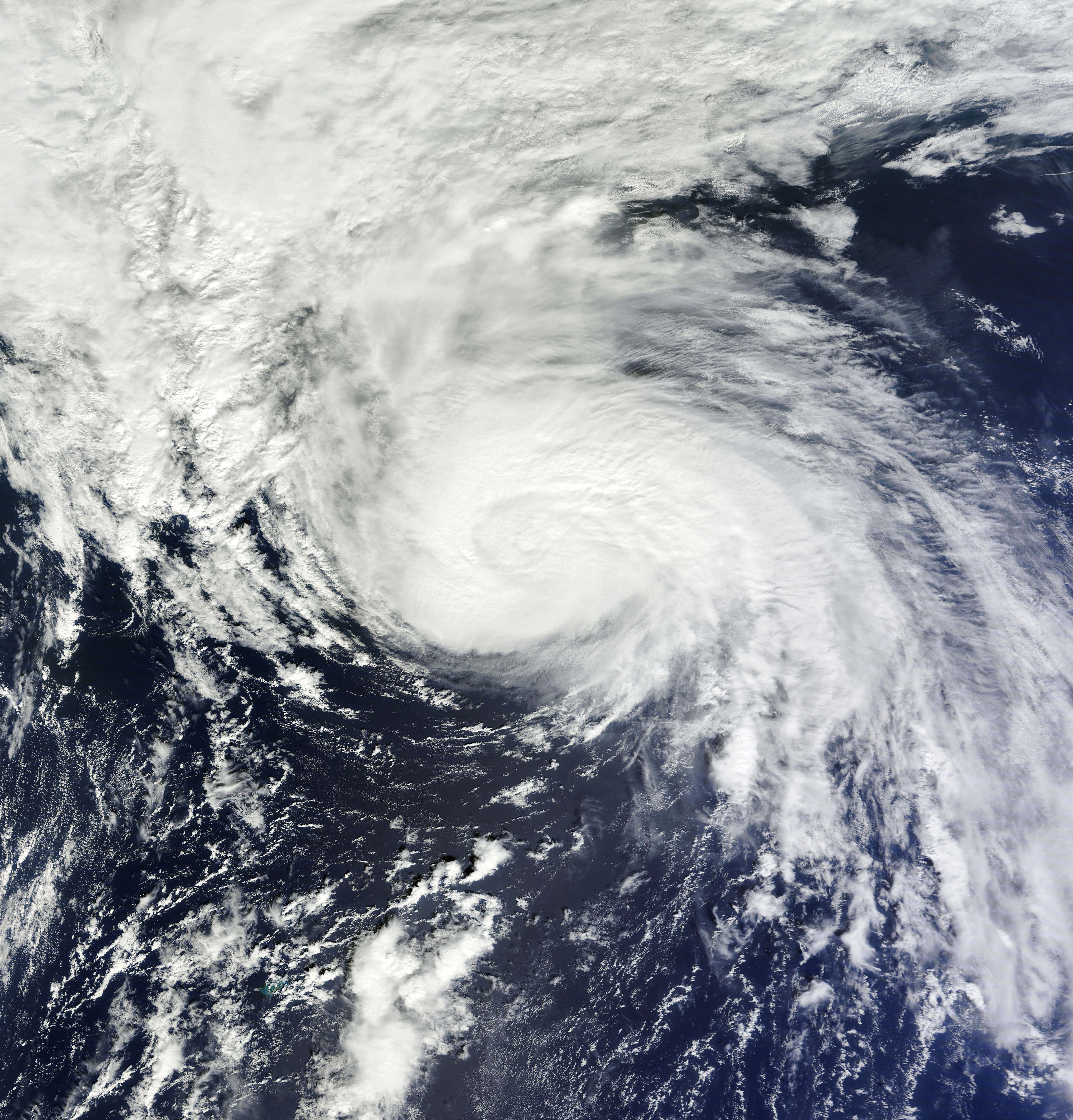 Hurricane Ophelia on October 2, 2011, as a category two hurricane.